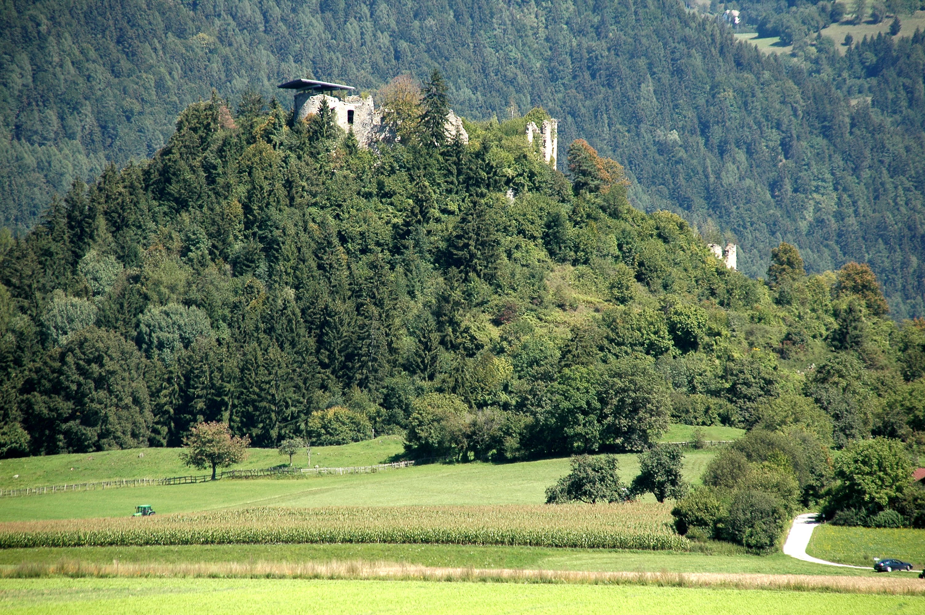 Castle ruin Waisenberg, municipality Völkermarkt, district Völkermarkt, Carinthia, Austria, EU